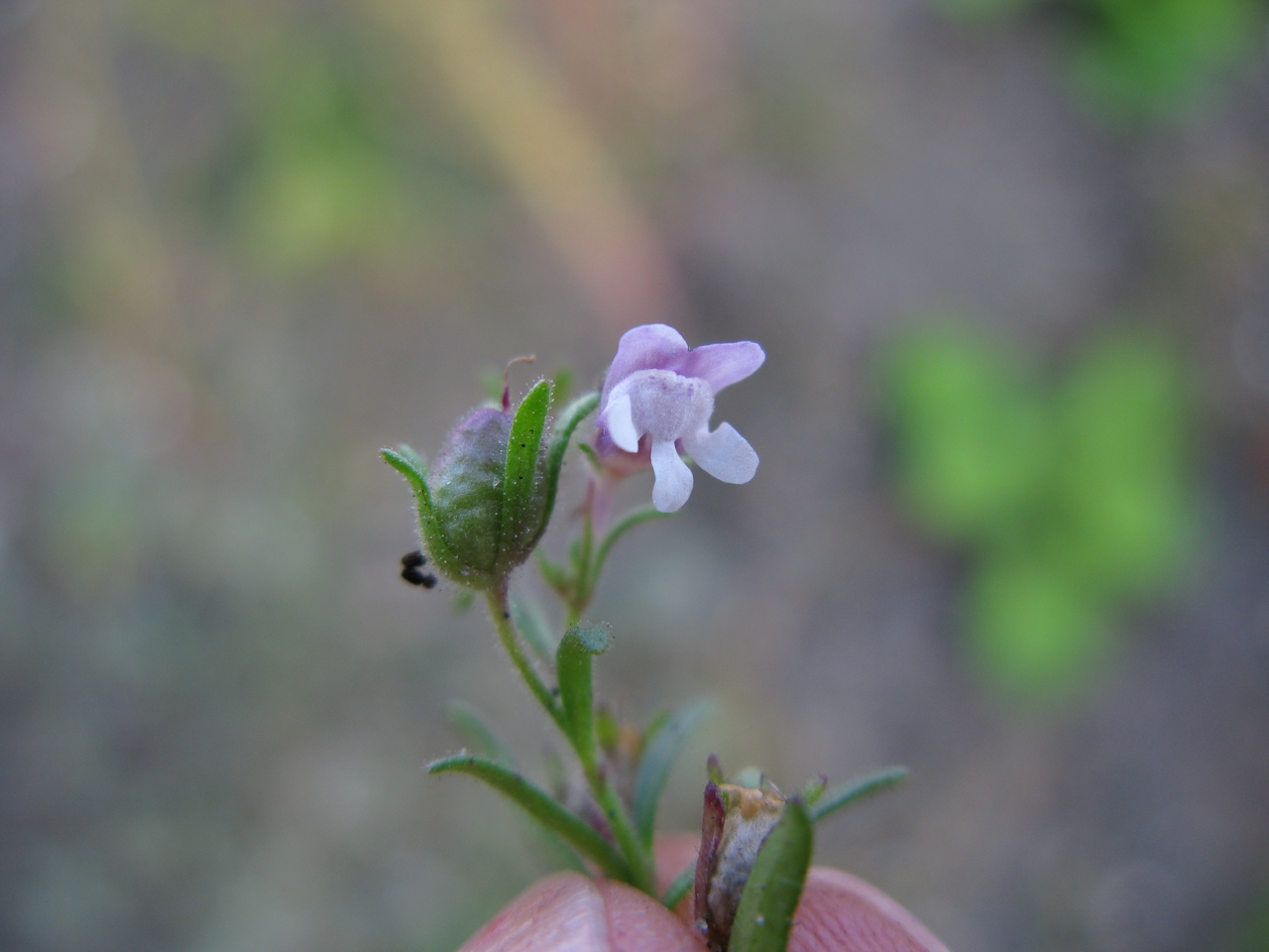 Chaenorhinum minus north germany